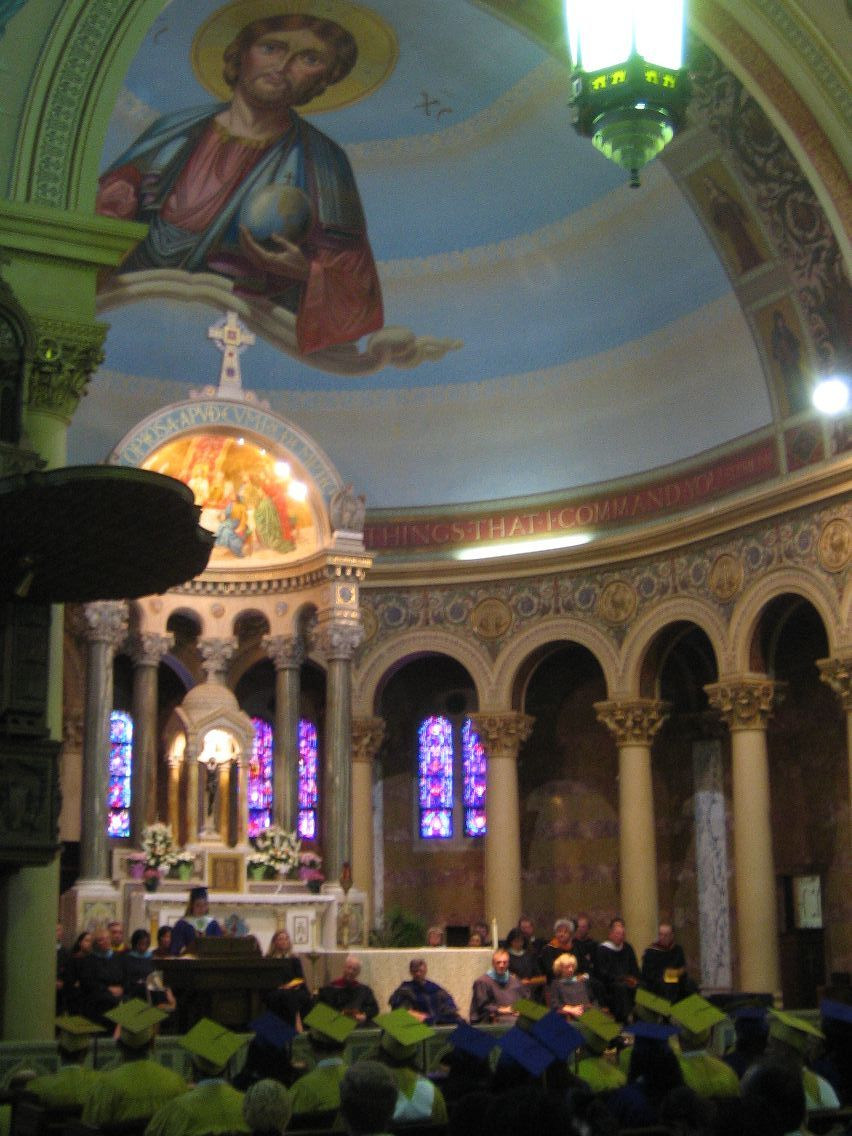 Building interior — Holy Redeemer Church — Detroit, Michigan. Final graduation — Johanna Fenton giving graduation speech.